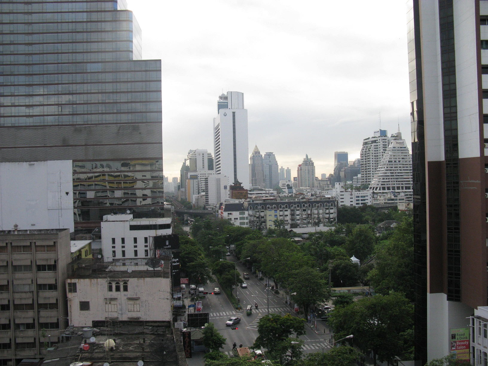 The view from Narai Hotel